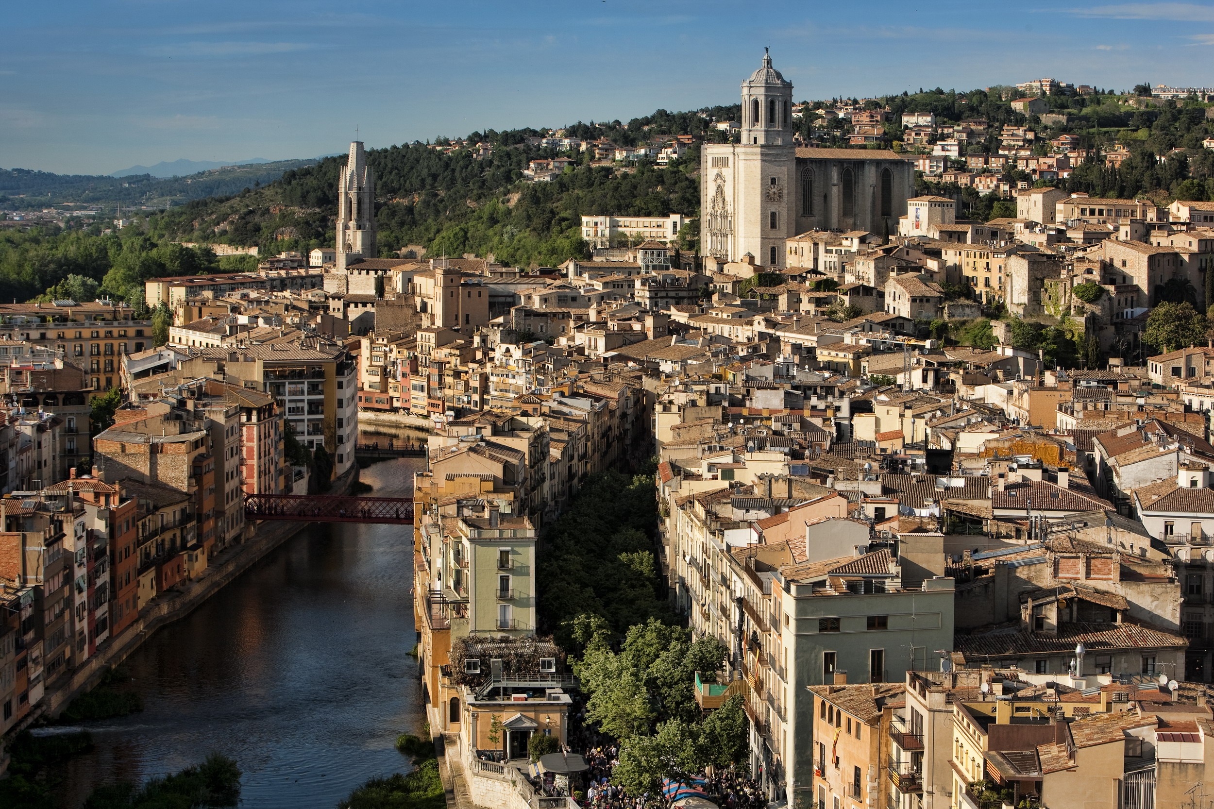 Girona